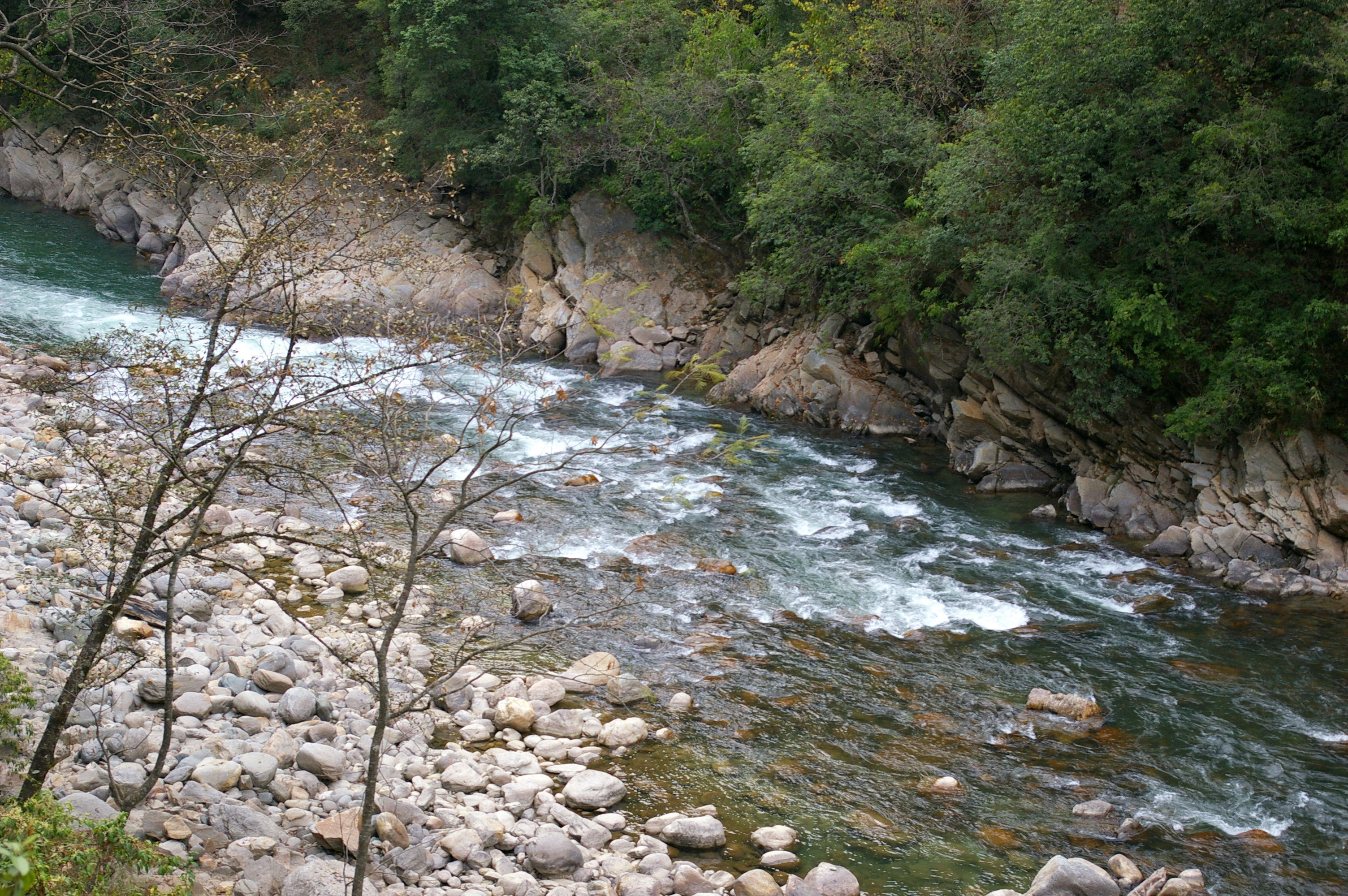 Mandakini near town of Guptakashi